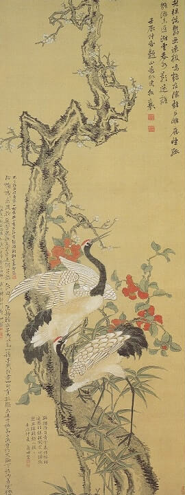 Three Friends of Winter with a Pair of Cranes by Tanomura Chikuden, Ube, Yamaguchi, Japan